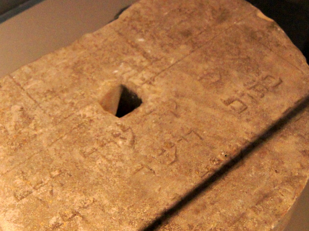 destroyed Jewish gravestone - macewa, used as millstone, Museum of Second World War in Gdańsk